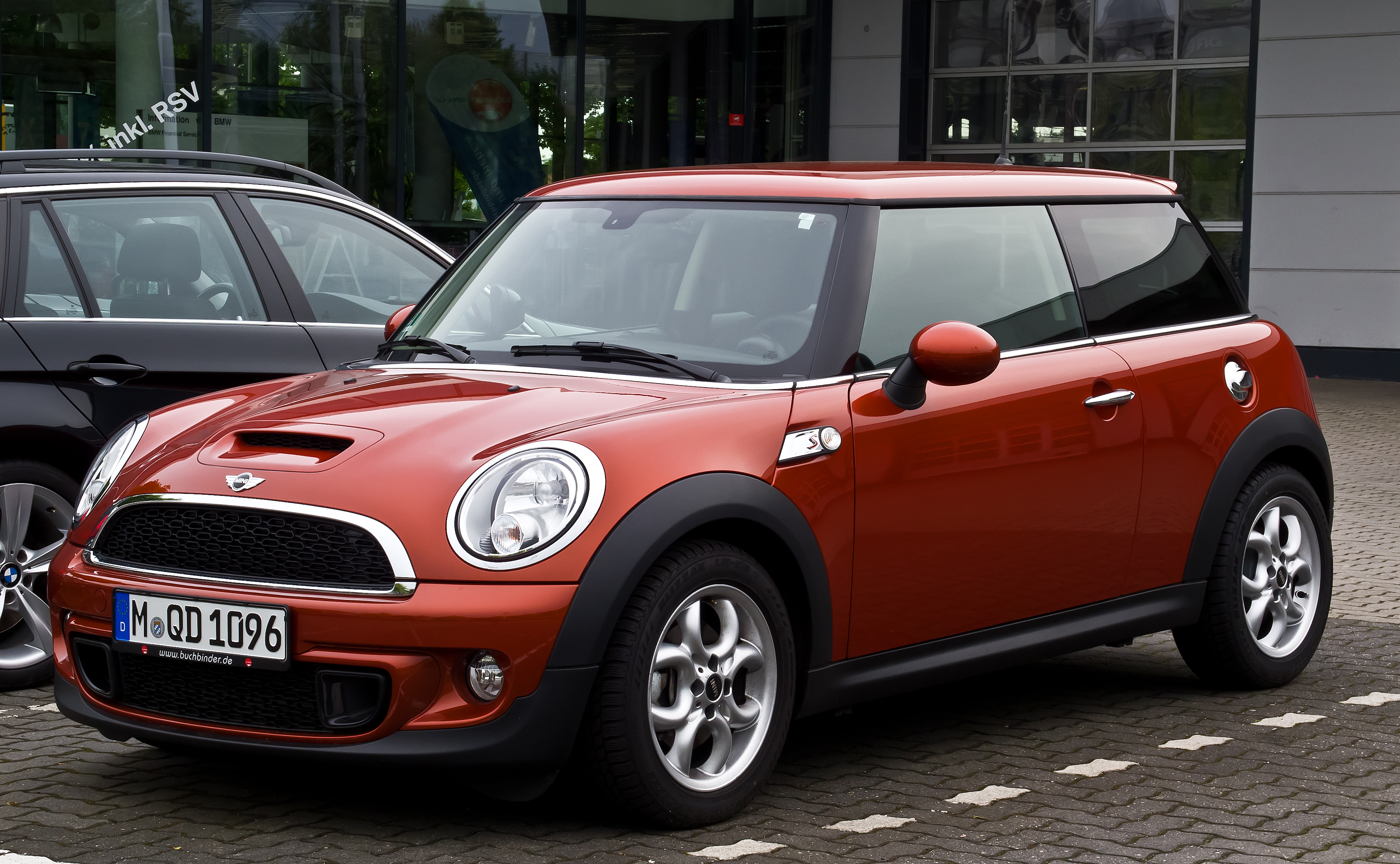 Mini Cooper SD (R56, Facelift)